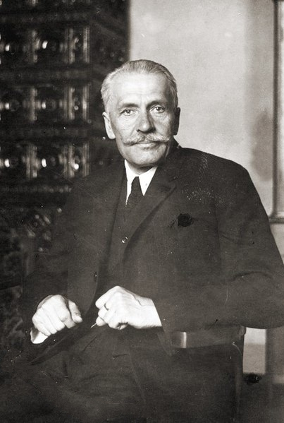 Ignacy Mościcki, president of Poland in the interwar period.